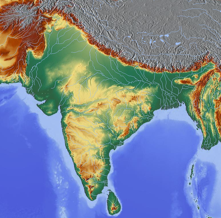 Blank relief map of South Asia